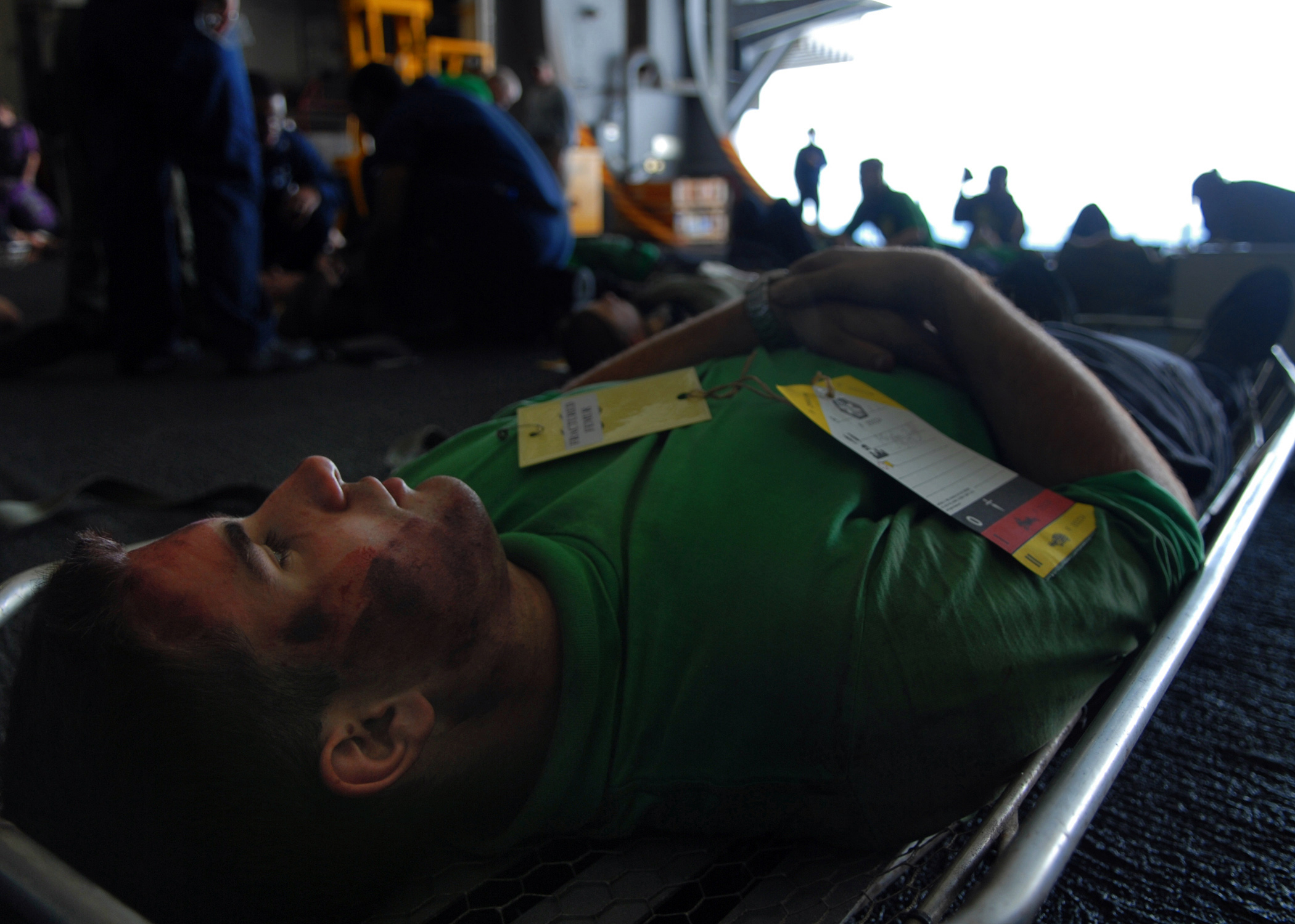 INDIAN OCEAN (Sept. 4, 2008) A simulated casualty waits to be assisted during a mass casualty drill aboard the Nimitz-class aircraft carrier USS Abraham Lincoln (CVN 72). Lincoln and embarked Carrier Air Wing (CVW) 2 are in the U.S. 7th Fleet area of responsibility on a scheduled 7-month deployment. (U.S. Navy photo by Mass Communication Specialist 3rd Class Ronald A. Dallatorre/Released)